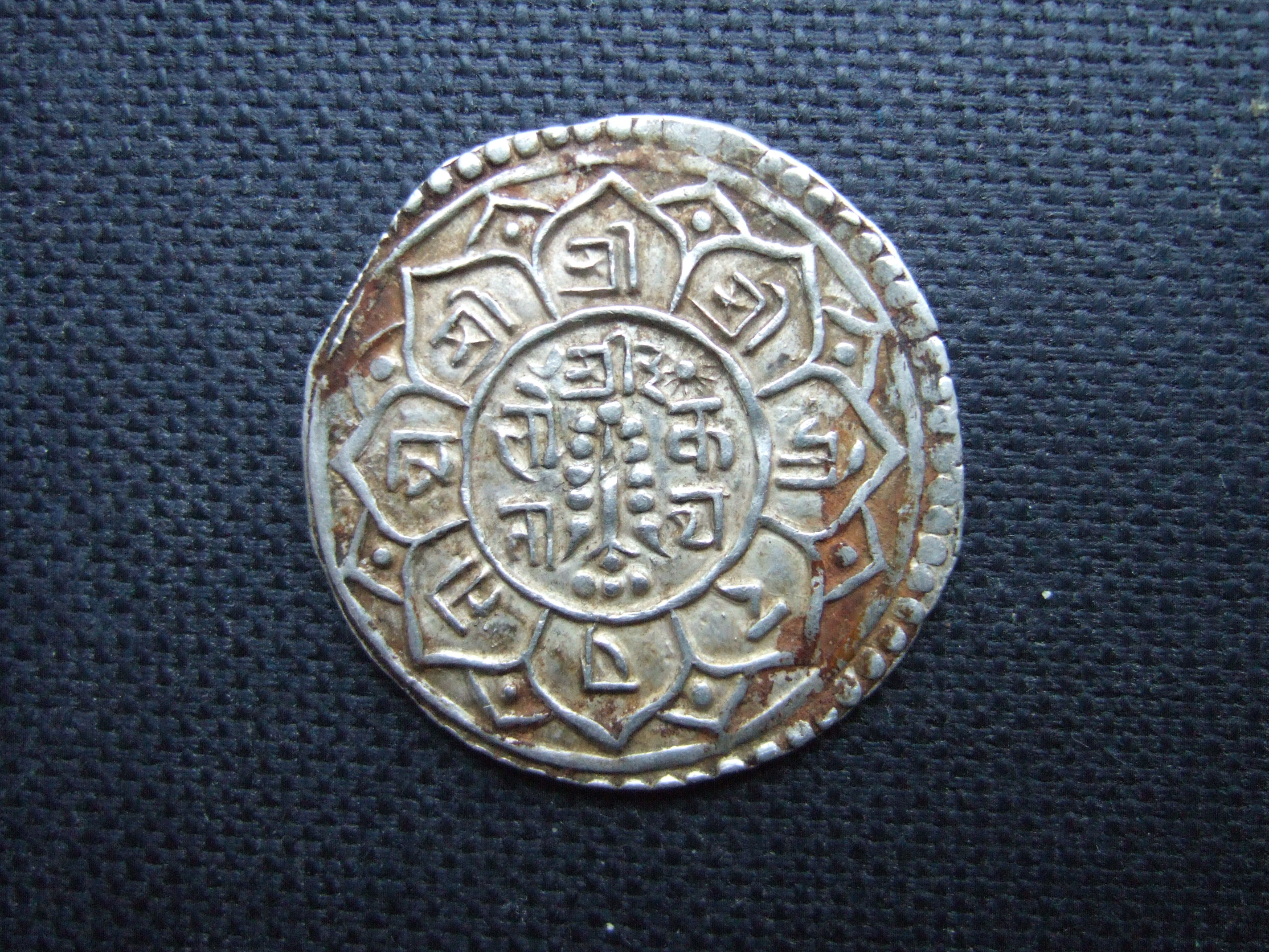 Mohar of king Ranjit Prithvi Narayan Shah as king of of Patan (Nepal), dated Saka Era 1685 ( AD 1763)), reverse